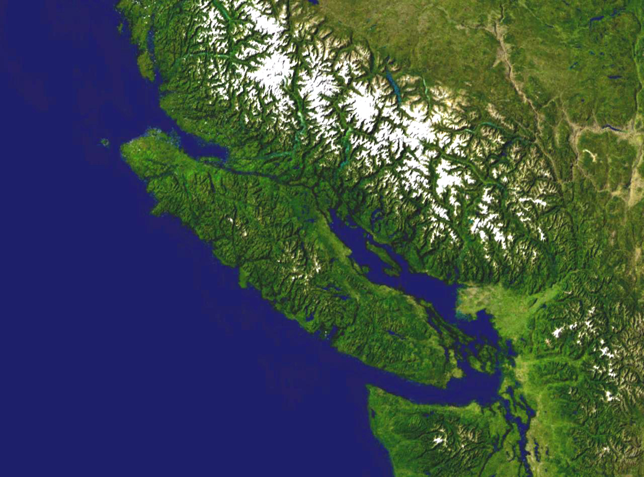 Vancouver Island in western Canada. Satellite picture. NASA blue pearl data